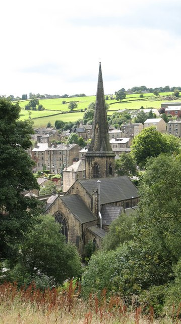 A view of Ripponden A view over the village with St Bartholomew's church prominent.